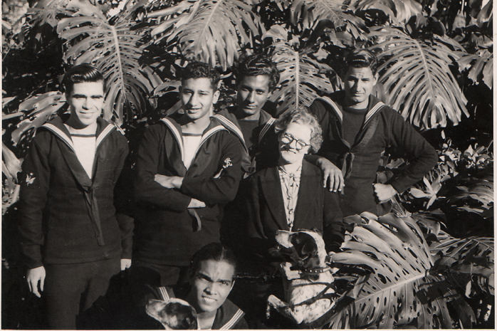 Florence Violet McKenzie posing with five international navy sailors. Presumably all students at her WESC signals school.